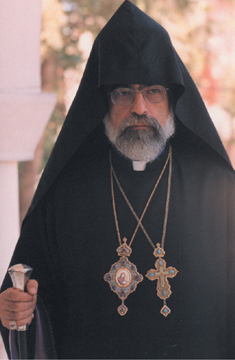 Prelate of Armenians in Cyprus, Archbishop Varoujan Hergelian